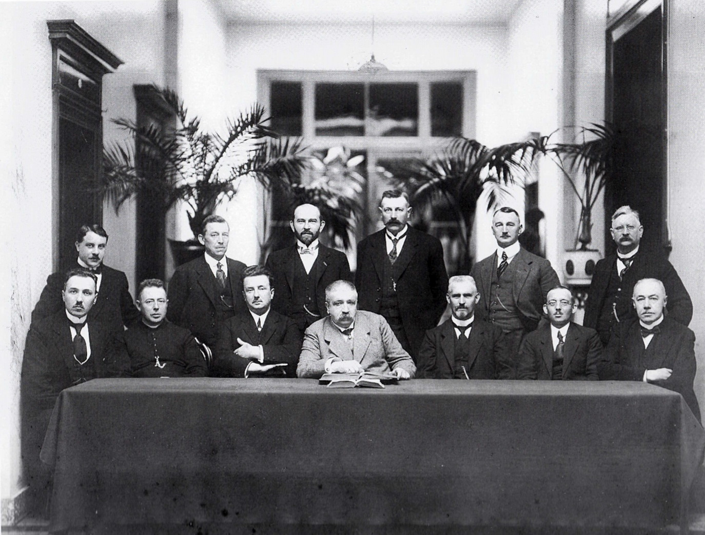 Bestuursleden van het Burgerlijk Armbestuur in Maastricht in de hal van het 1e-klasgebouw van Ziekenhuis Calvariënberg (tegenwoordig Elisabethhuis). Zittend van links naar rechts: J. Pinckaers (rentmeester), J. Verheggen (aalmoezenier), E. Dassen, E. Charlier (voorzitter), H. Houx (wethouder), R. Nafzger (wethouder) en J. Römer (secretaris). Staand van links naar rechts: C. Schepers, H. Paris, H. Houberechts, F. Bocken, P. Hustinx en M. Micheels.